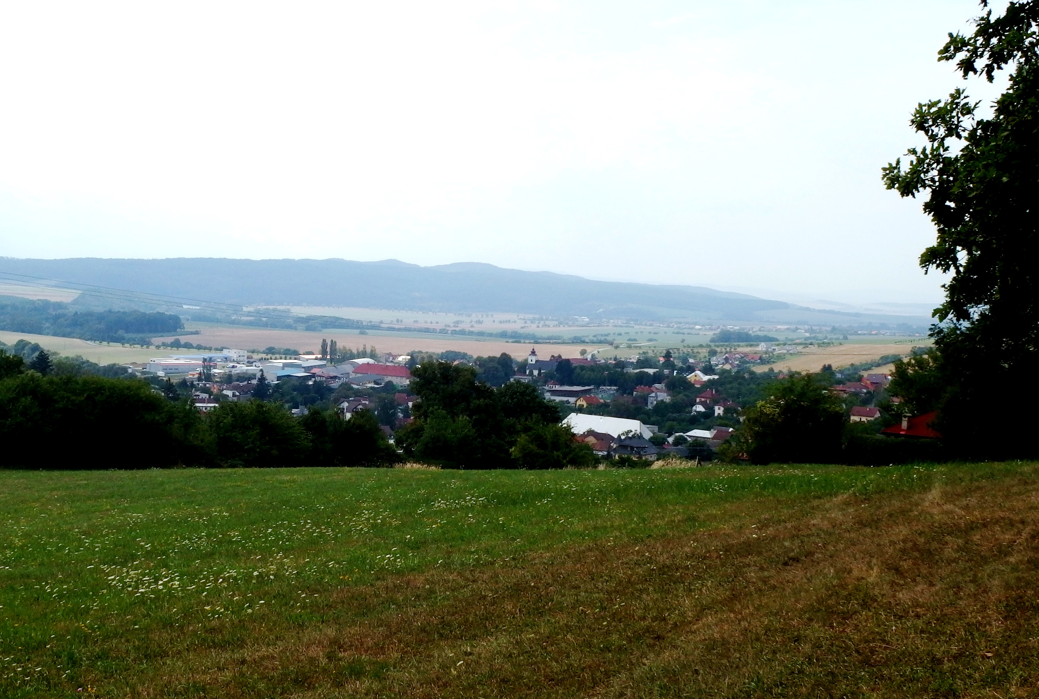 Lukov, Zlín District, Czech Republic.